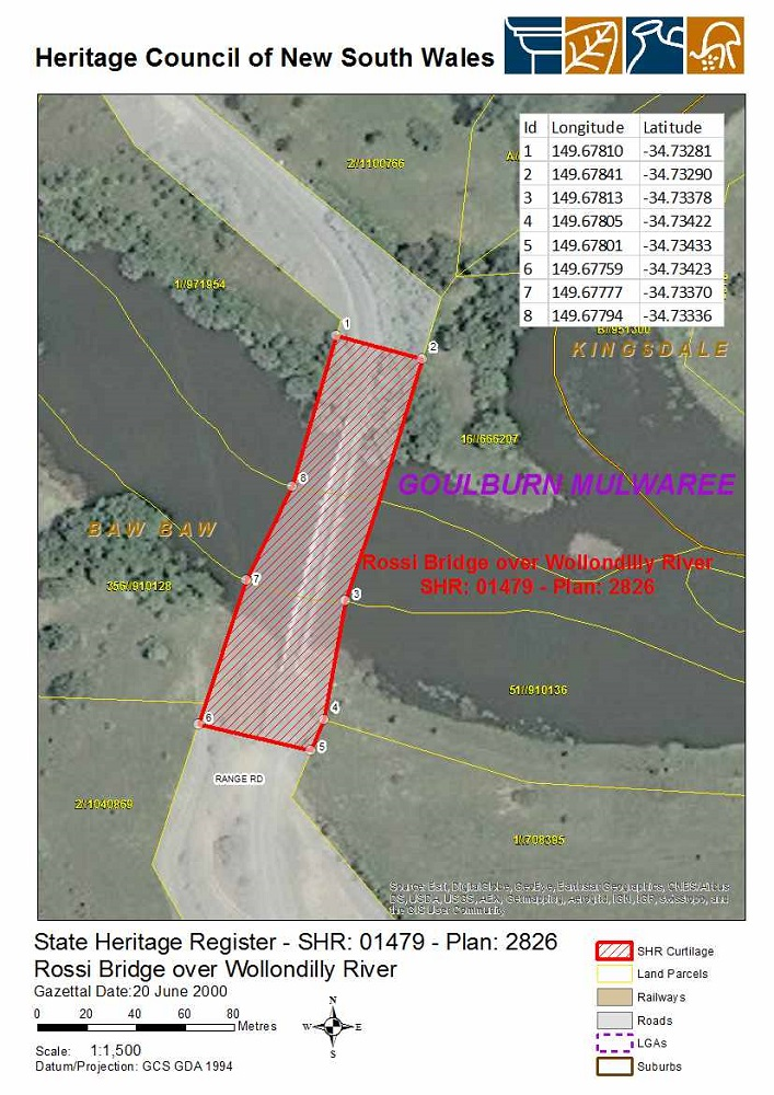 Rossi Bridge over Wollondilly River: SHR Plan No 2826